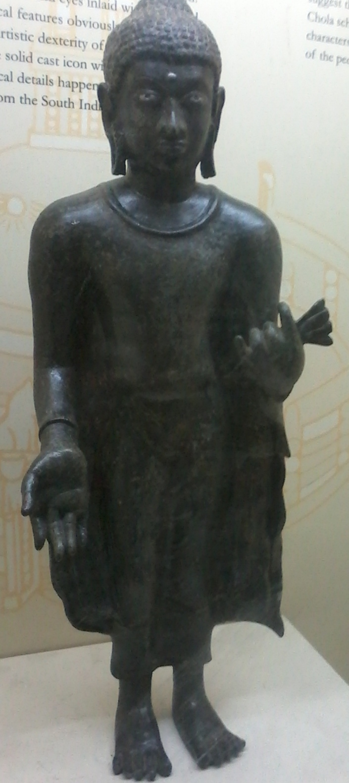 Originally found in Nelakondapalli, Khammam district and now is in YSR state archeological museum, Hyderabad. Belong to 4-5th CAD. Influence of Gandhara style of art, cast iron statue. Avalokiteswara standing on sampada (attention), Right hand is in varaha mudra and left hand holds sanghati.